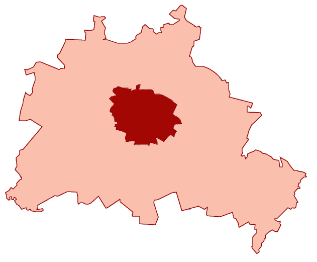 Map of the pre-1920 municipal limits of the City of Berlin within the extended city area of the actual Berlin